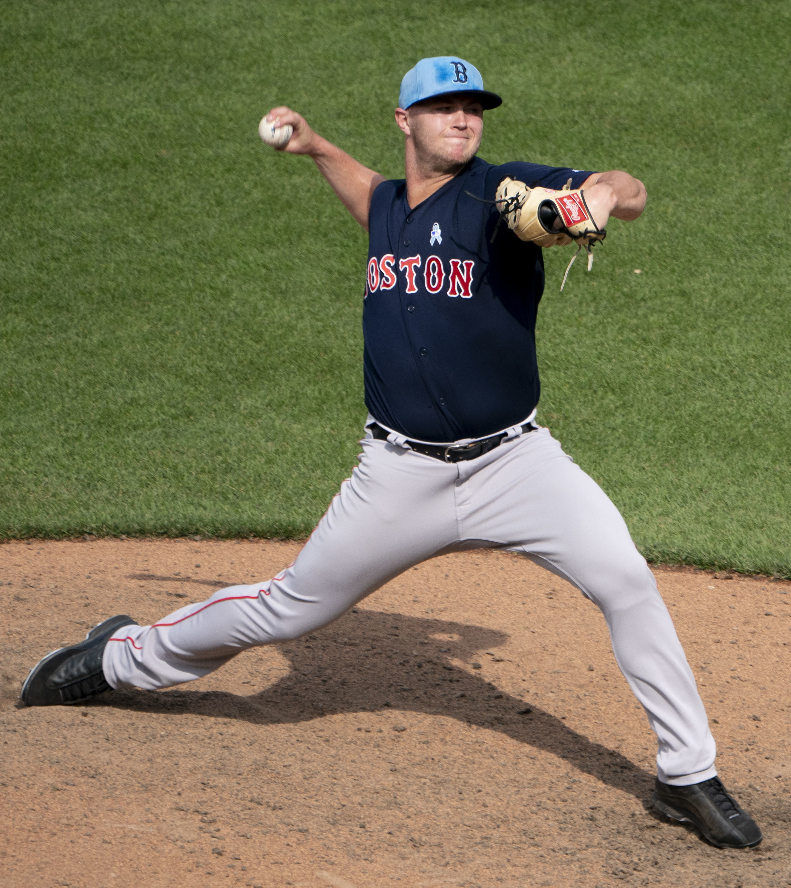 Travis Lakins delivers a pitch for the Boston Red Sox during a 2019 game at Camden Yards in Baltimore